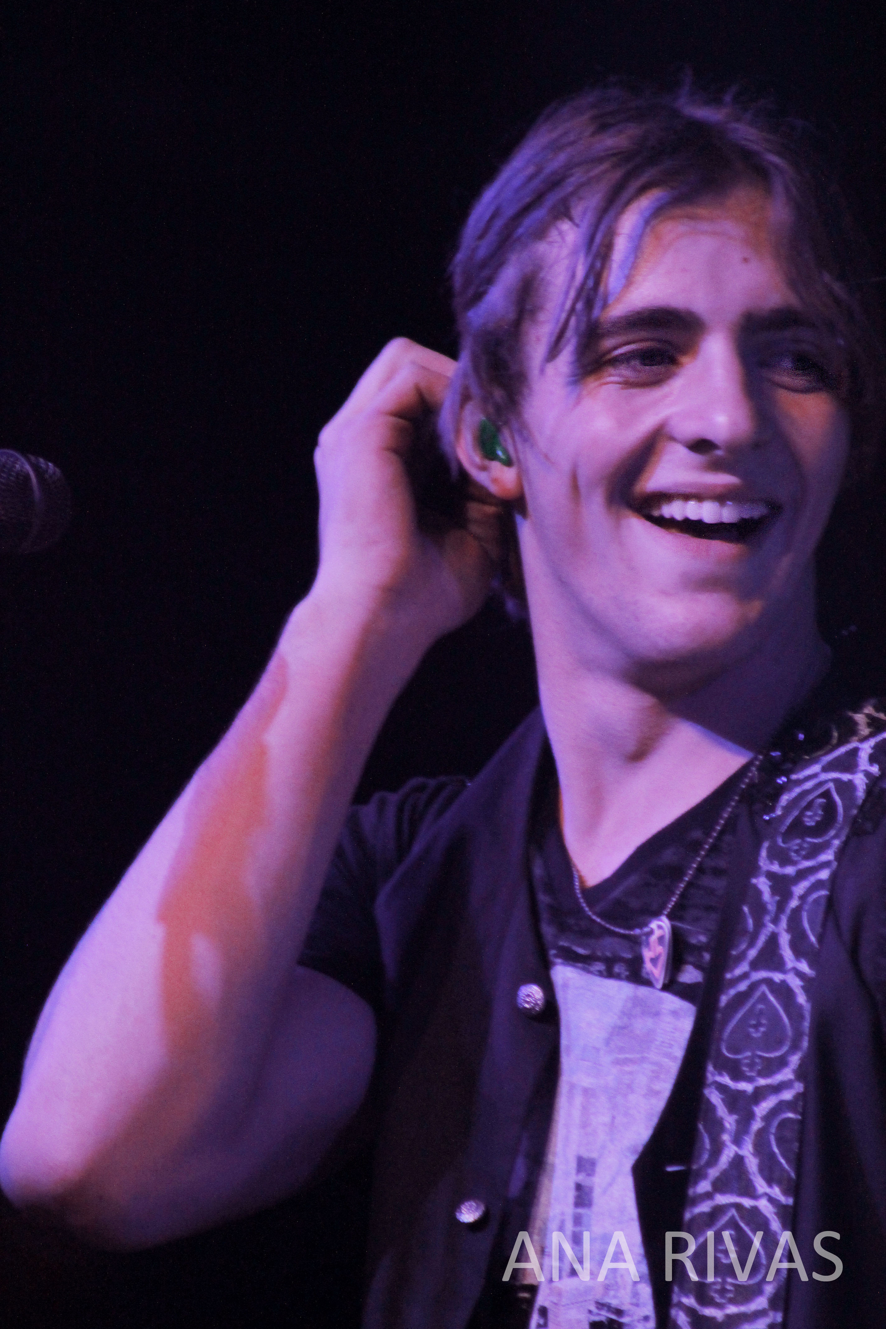 R5 Loud Tour Yost Theater Santa Ana, CA March 15th, 2013